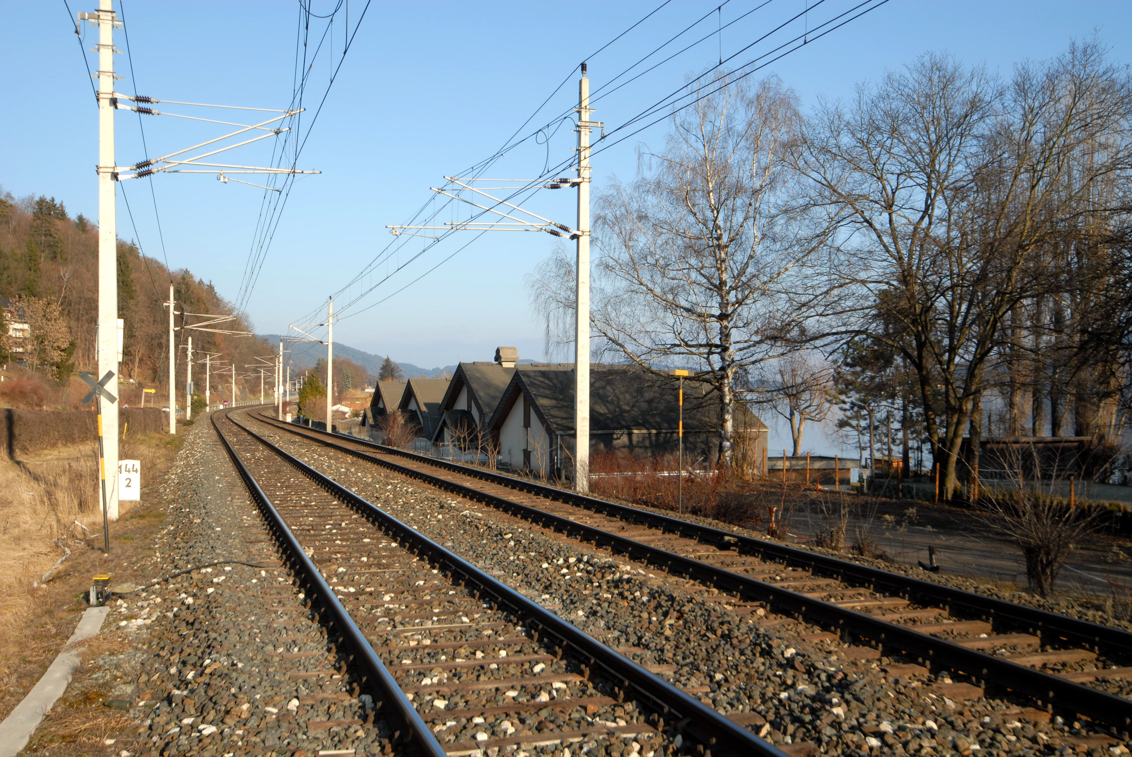 Railway line of the Drautalbahn II at Saag, municipality Techelsberg, district Klagenfurt Land, Carinthia, Austria, EU